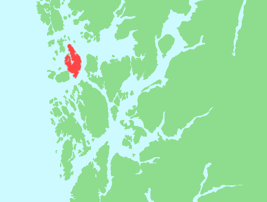 Locator map of Huftarøy, Hordaland, Norway